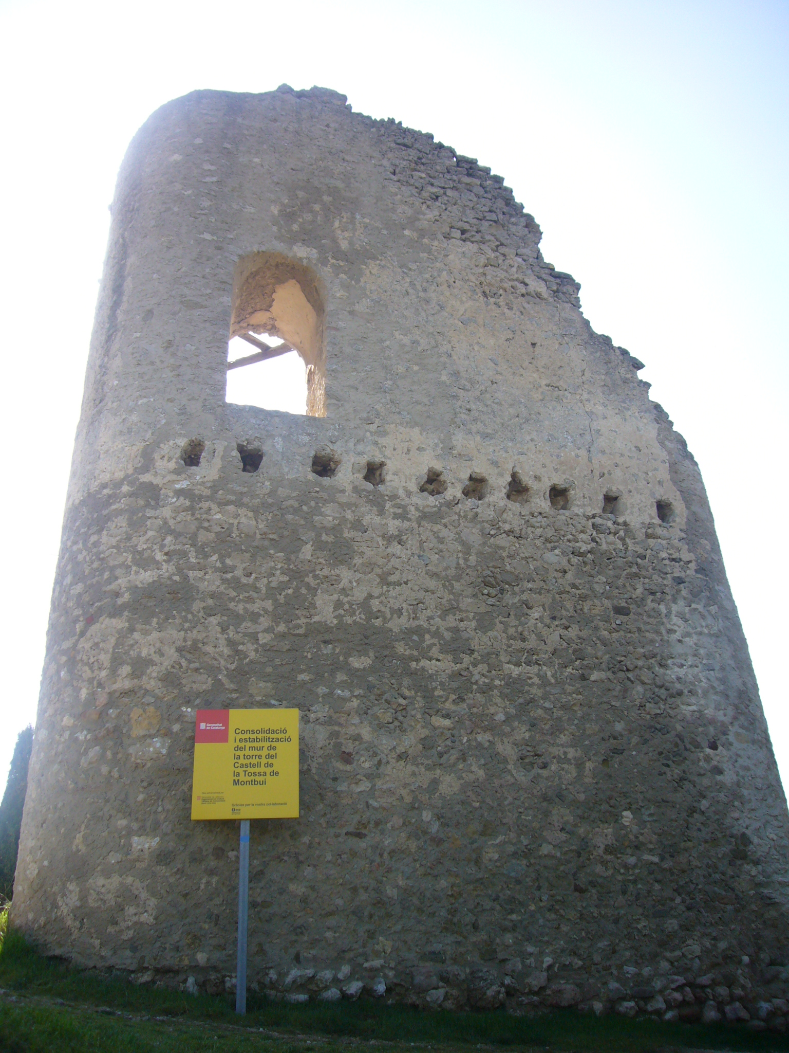 Castell de la Tossa de Montbui, lateral view